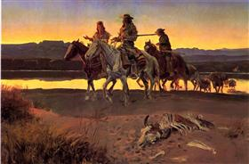 Work by Charles Marion Russell